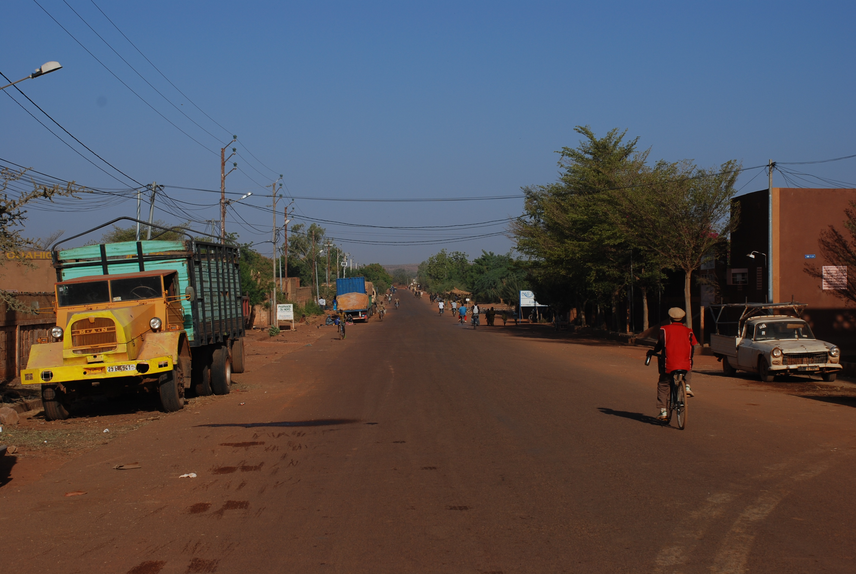 Ouahigouya in the direction of the Malian border, Burkina Faso